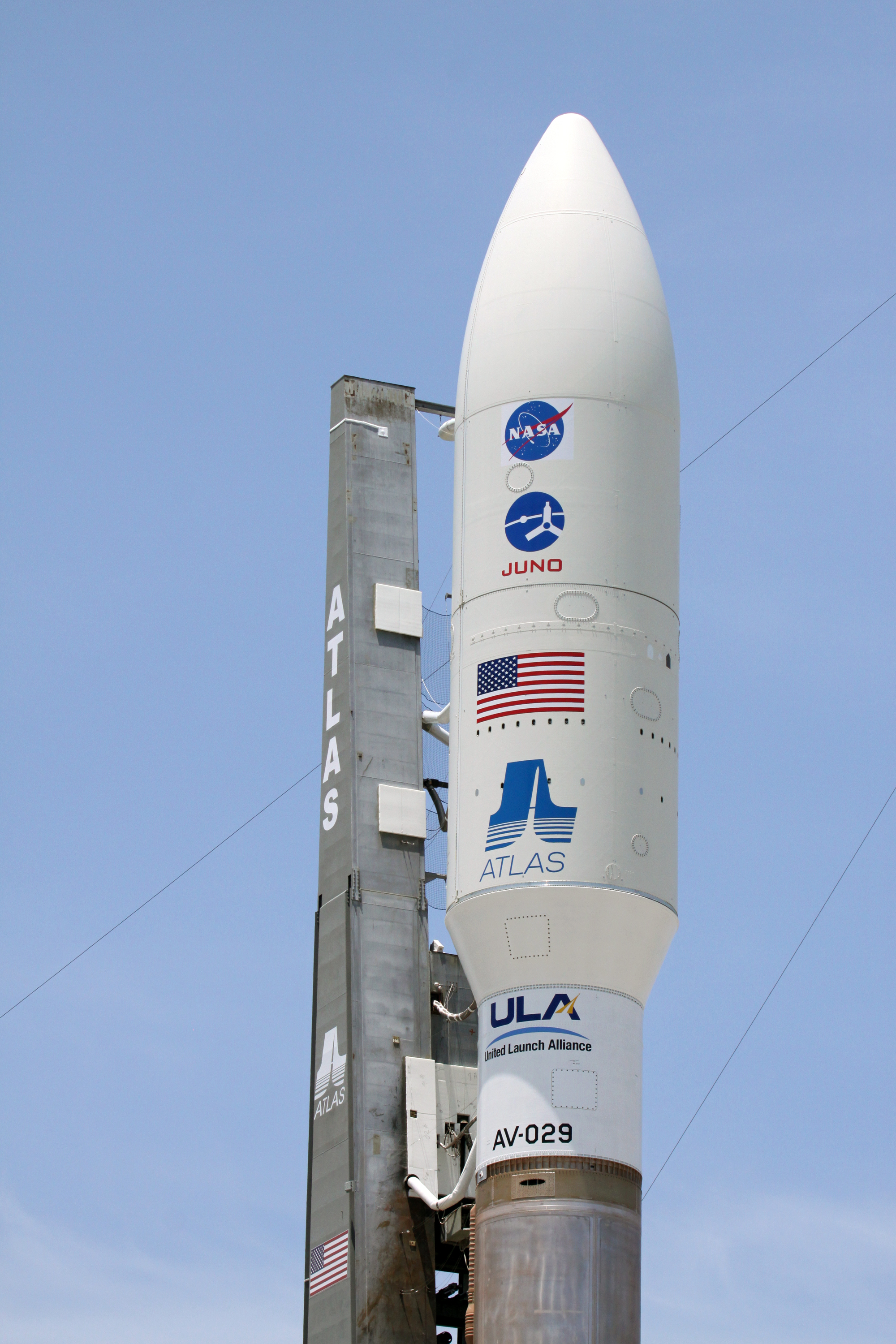 CAPE CANAVERAL, Fla. -- NASA's Juno spacecraft, enclosed in its payload fairing atop a United Launch Alliance Atlas V-551 launch vehicle, stands on the launch pad at Space Launch Complex 41 on Cape Canaveral Air Force Station in Florida ready for launch. Liftoff is planned during a launch window which extends from 11:34 a.m. to 12:43 p.m. EDT on Aug. 5. The solar-powered spacecraft will orbit Jupiter's poles 33 times to find out more about the gas giant's origins, structure, atmosphere and magnetosphere and investigate the existence of a solid planetary core. NASA's Jet Propulsion Laboratory, Pasadena, Calif., manages the Juno mission for the principal investigator, Scott Bolton, of Southwest Research Institute in San Antonio. The Juno mission is part of the New Frontiers Program managed at NASA's Marshall Space Flight Center in Huntsville, Ala. Lockheed Martin Space Systems, Denver, built the spacecraft. Launch management for the mission is the responsibility of NASA's Launch Services Program at the Kennedy Space Center in Florida. For more information, visit